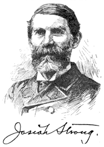 Illustration of American author and clergyman Josiah Strong (1847-1916) with replicated signature. From Book News, no. 132 (August 1893), p. 517.